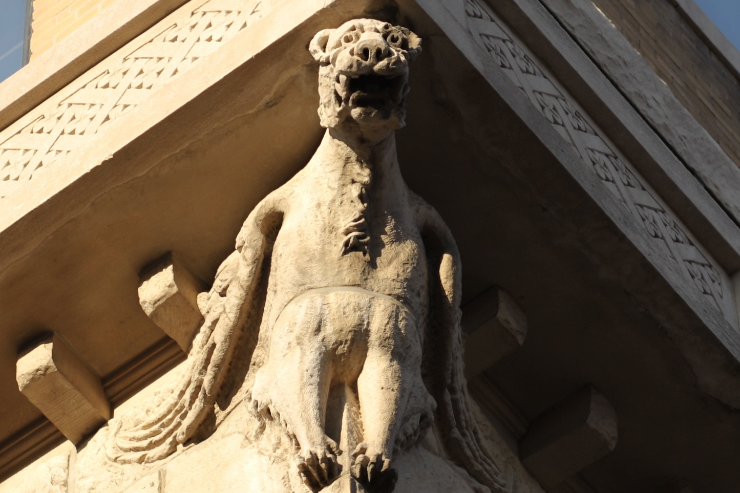 Gargoyle on the Cairo Apartment building in Washington, DC